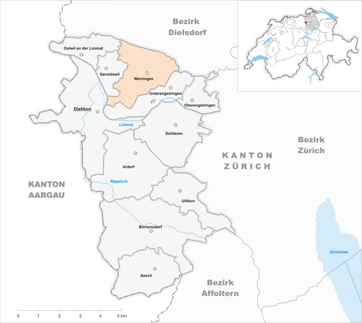 Municipality Weiningen